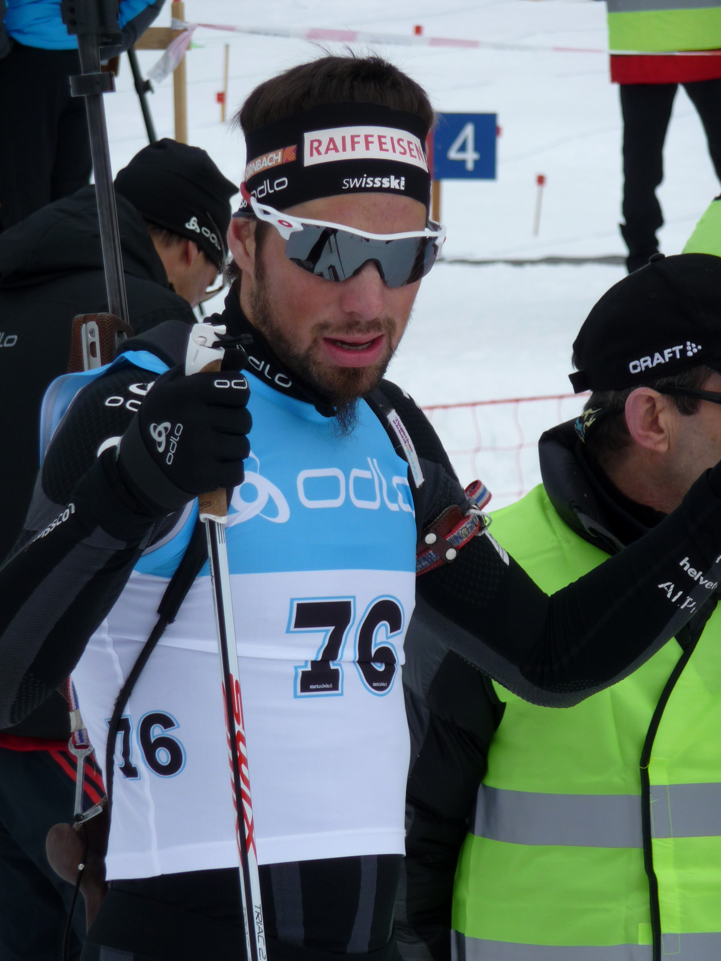 Swiss biathlete Benjamin Weger at National Championships in Biathlon 2013 (Sprint Race) in La Lécherette, Switzerland